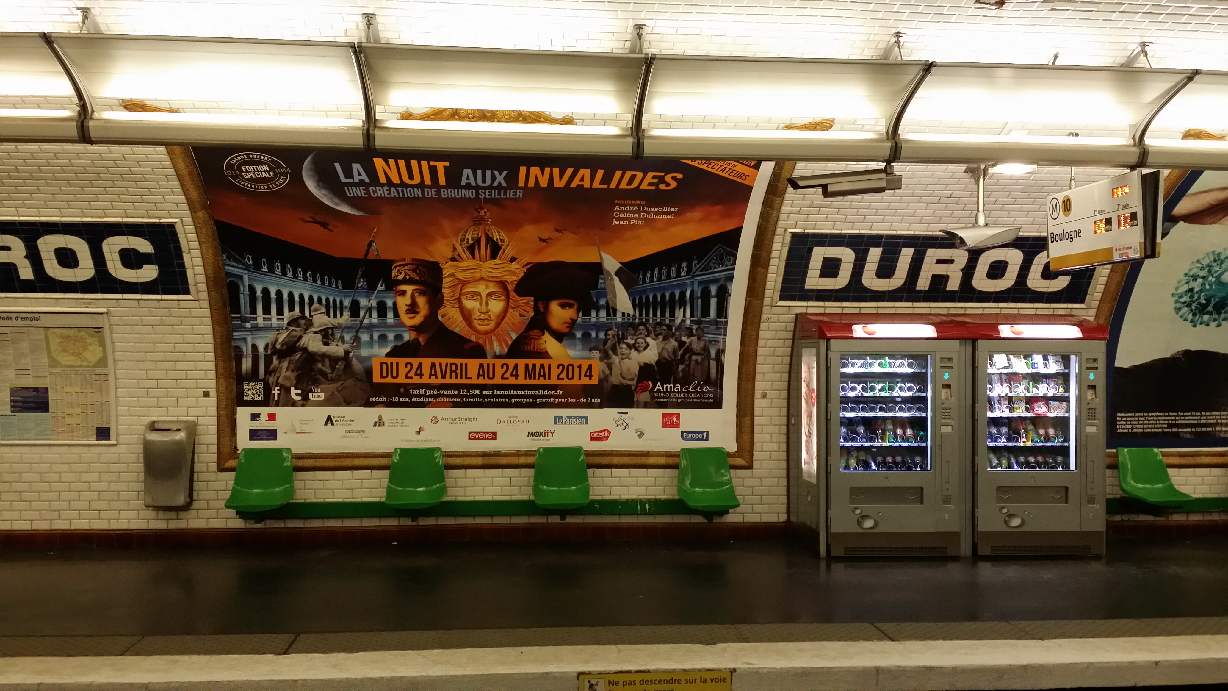 Duroc metro station in Paris